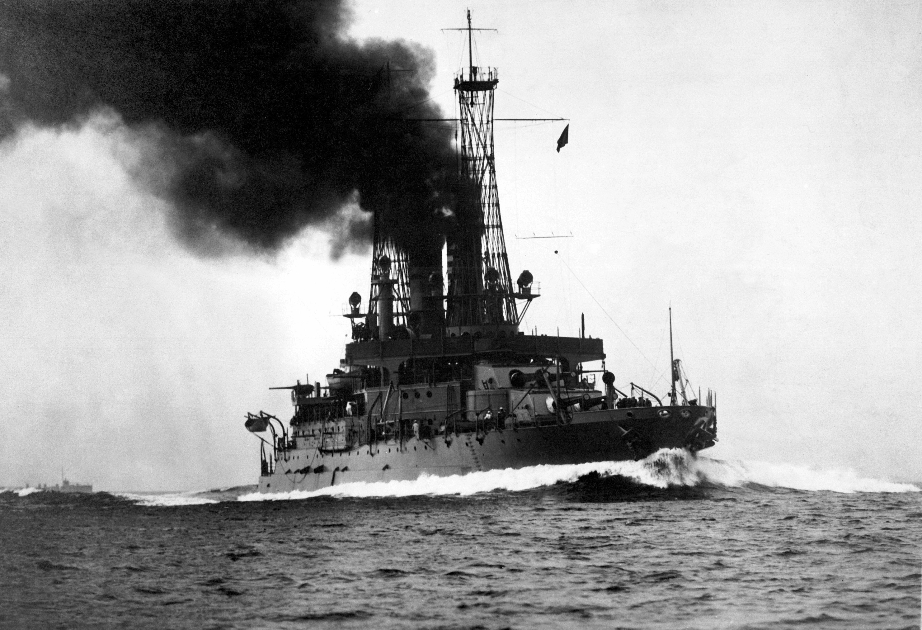 U.S.S. Michigan. Ca. 1918. Enrique Muller. (War Dept.) Exact Date Shot Unknown NARA FILE #: 165-WW-334A-23 WAR & CONFLICT BOOK #: 483